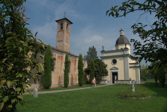 Church and chapels of the sanctuary of Pilastrello, Dovera, province of Cremona, Italy